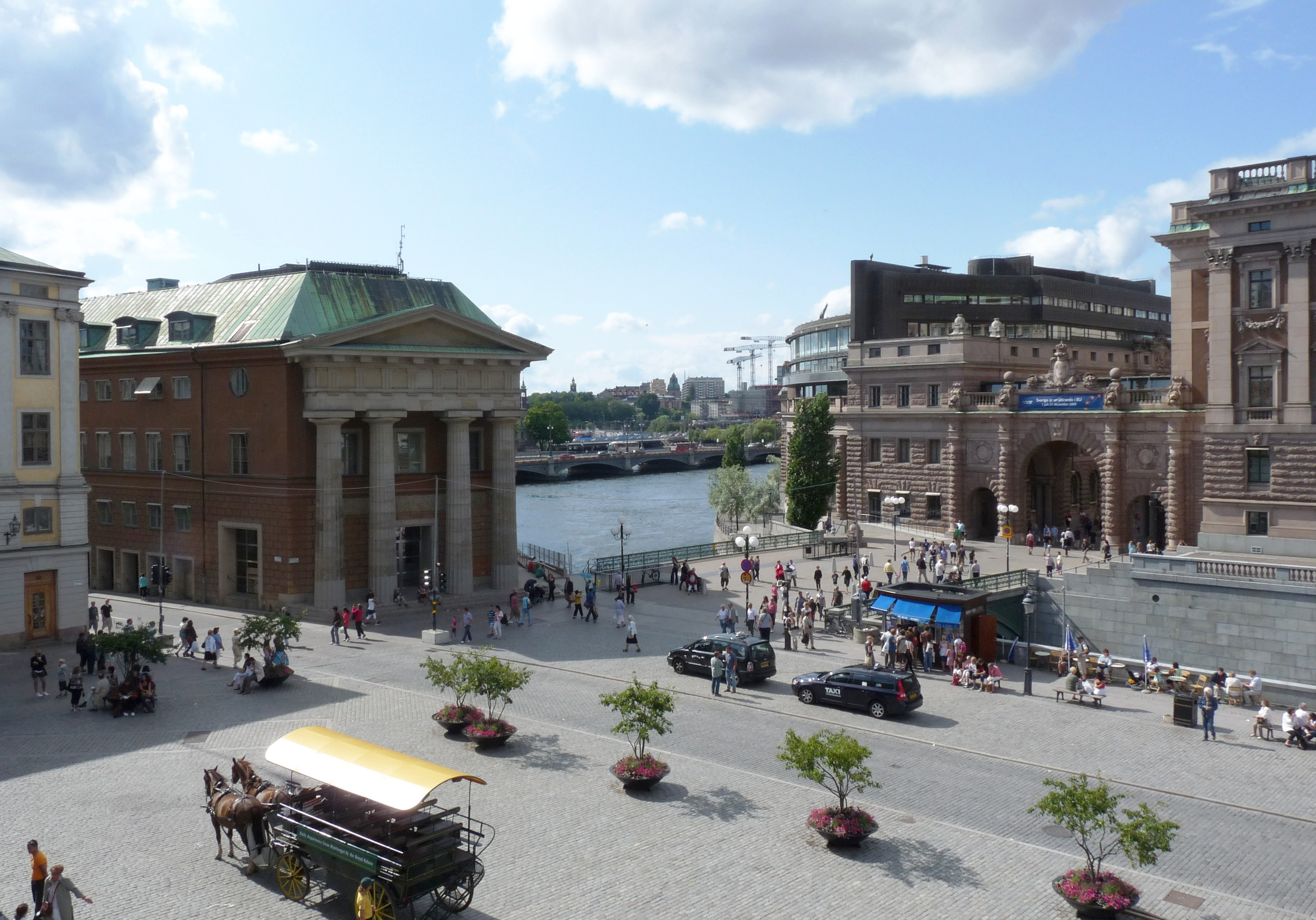 Mynttorget in Stockholm, Sweden, seen from Högvaktsterrassen. The building with the columns i front is the Parliament member's office building. The bridge leading across to the main buildings of the Riksdag is Stallbron.